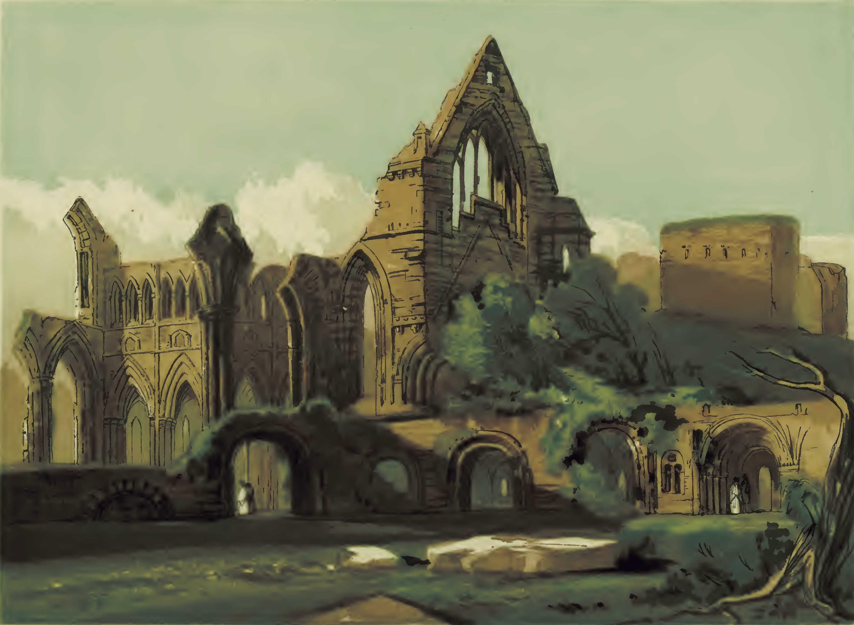 Dryburgh abbey before 1860, from Old England : a pictorial museum of regal, ecclesiastical, municipal, baronial, and popular antiquities (1860?), Charles Knight 1791-1873. After page 202.